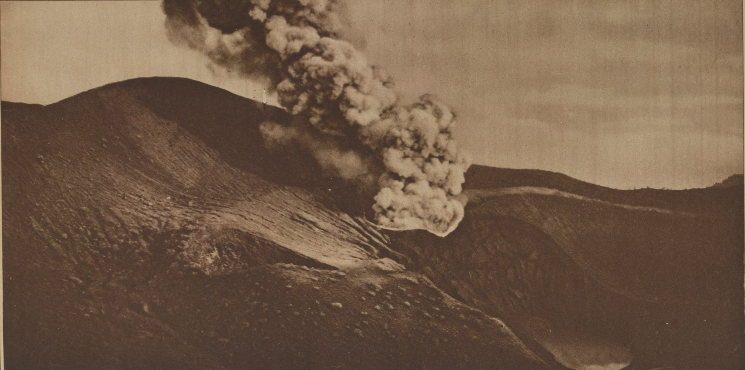 The Irazú Volcano (Spanish: Volcán Irazú) is an active volcano in Costa Rica, situated in the Cordillera Central close to the city of Cartago